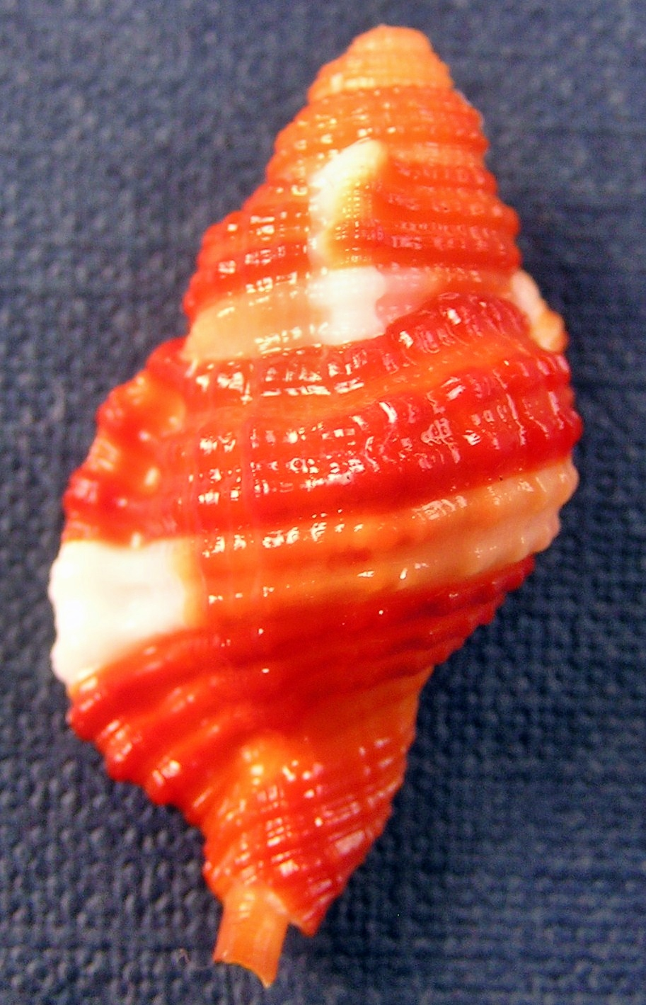 Septa bibbeyi (Beu, 1987) , a triton from the family Ranellidae; Philippines